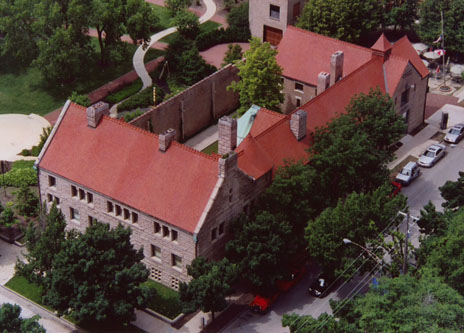 I took this image myself in June 2004 and have full rights to post it on Wikipedia. Prairieavenue (talk) 15:11, 3 December 2008 (UTC) Prairieavenue (talk) 16:21, 5 December 2008 (UTC)